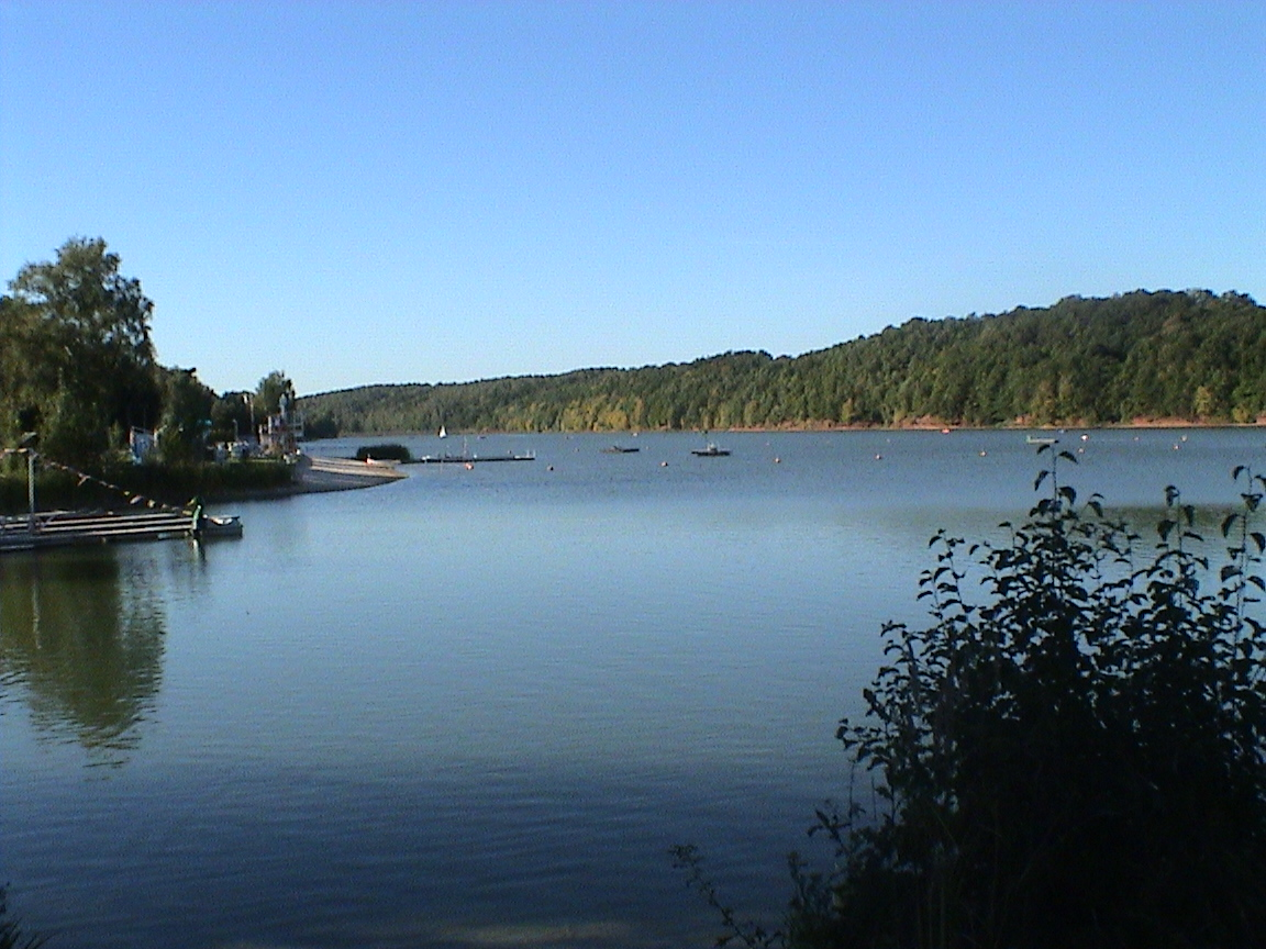 artificial lake "Koberbachtalsperre" view from restaurant "Seehaus" to the steep shore